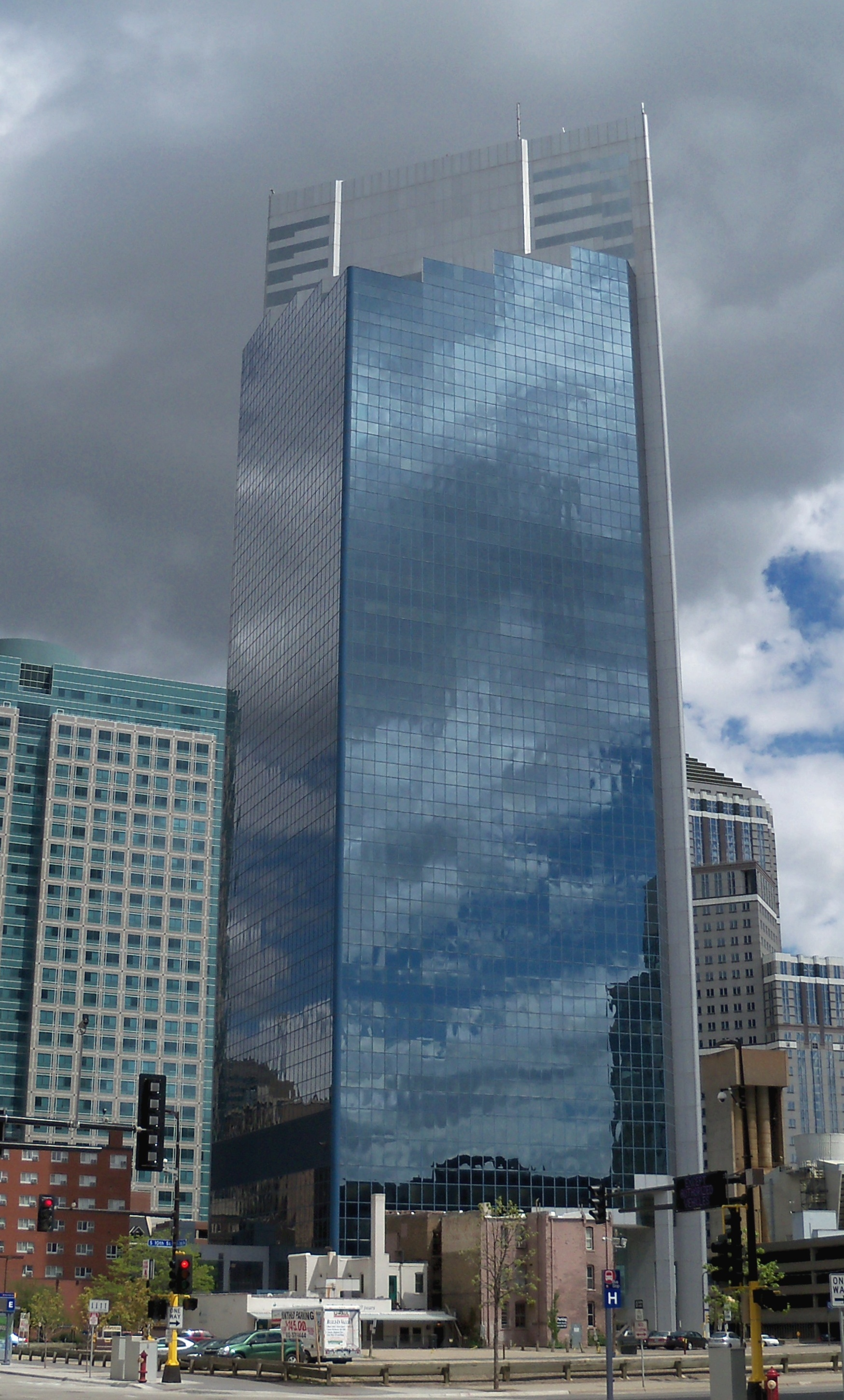 Campbell Mithun Tower in Minneapolis, Minnesota, USA as seen from near the corner of 10th Street South and 2nd Avenue. Foreground buildings are, on the left, the League of Catholic Women building and, on the right, the Oakland Apartments.